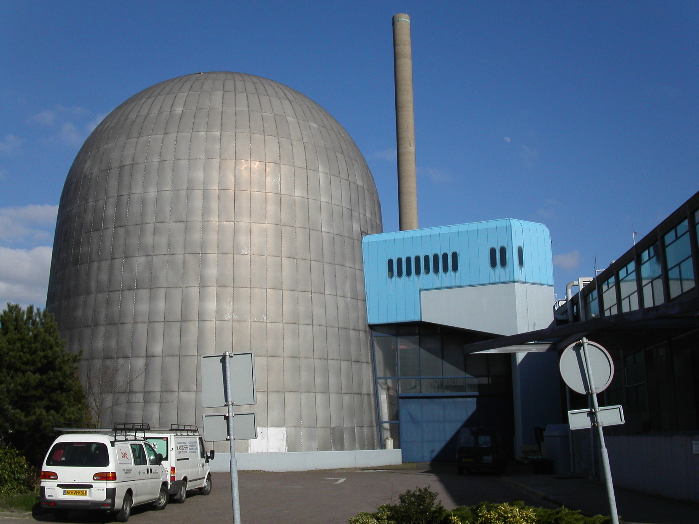 Interfacultair Reactor Instituut TU Delft, a small nuclear research reactor of the University of Technology Delft.